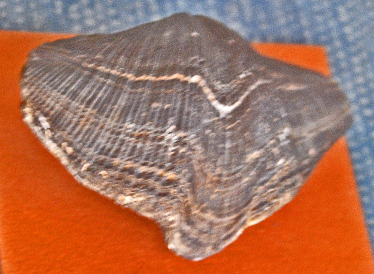 Crop of file in filename